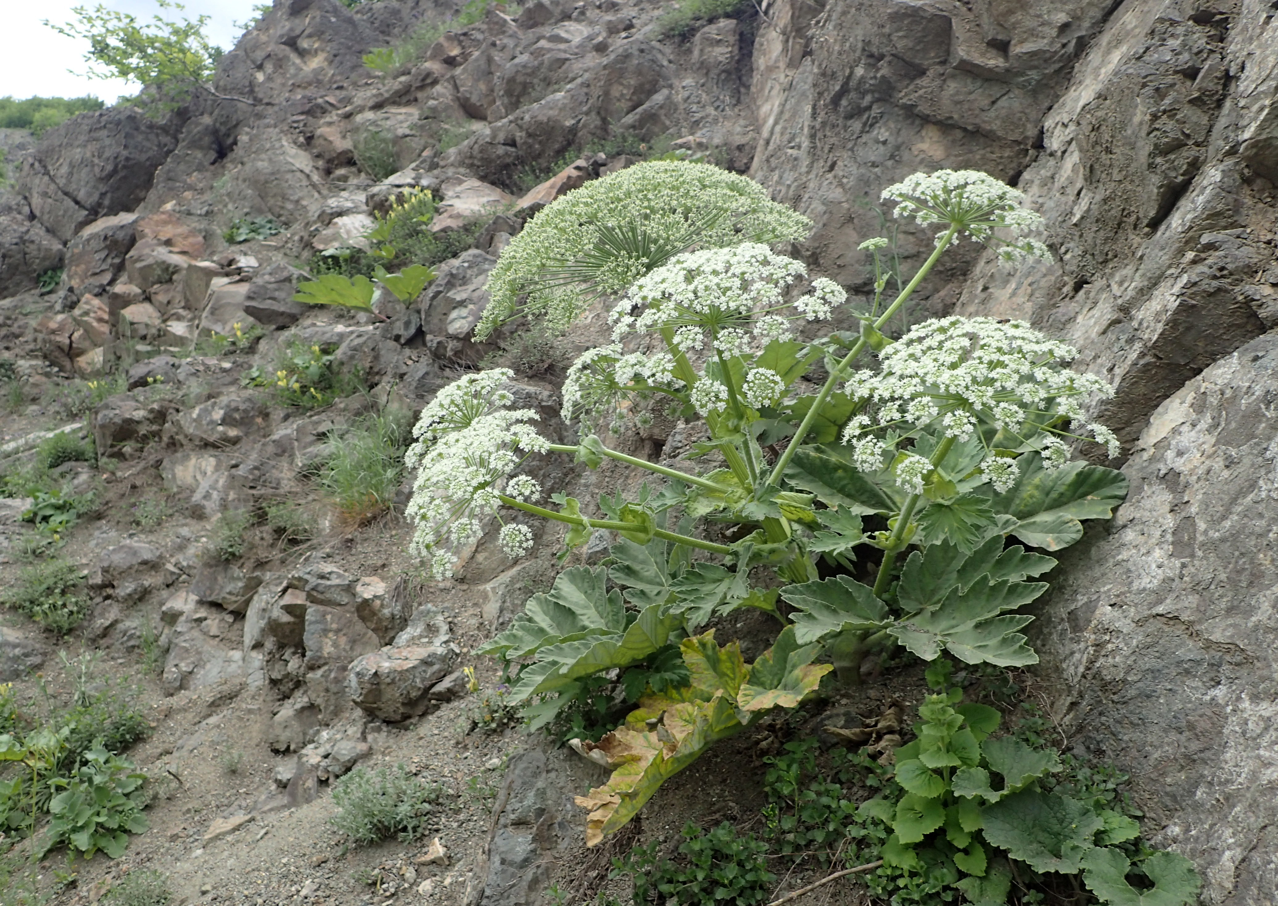 Heracleum antasiaticum on rocky slope near Sakire in Georgia